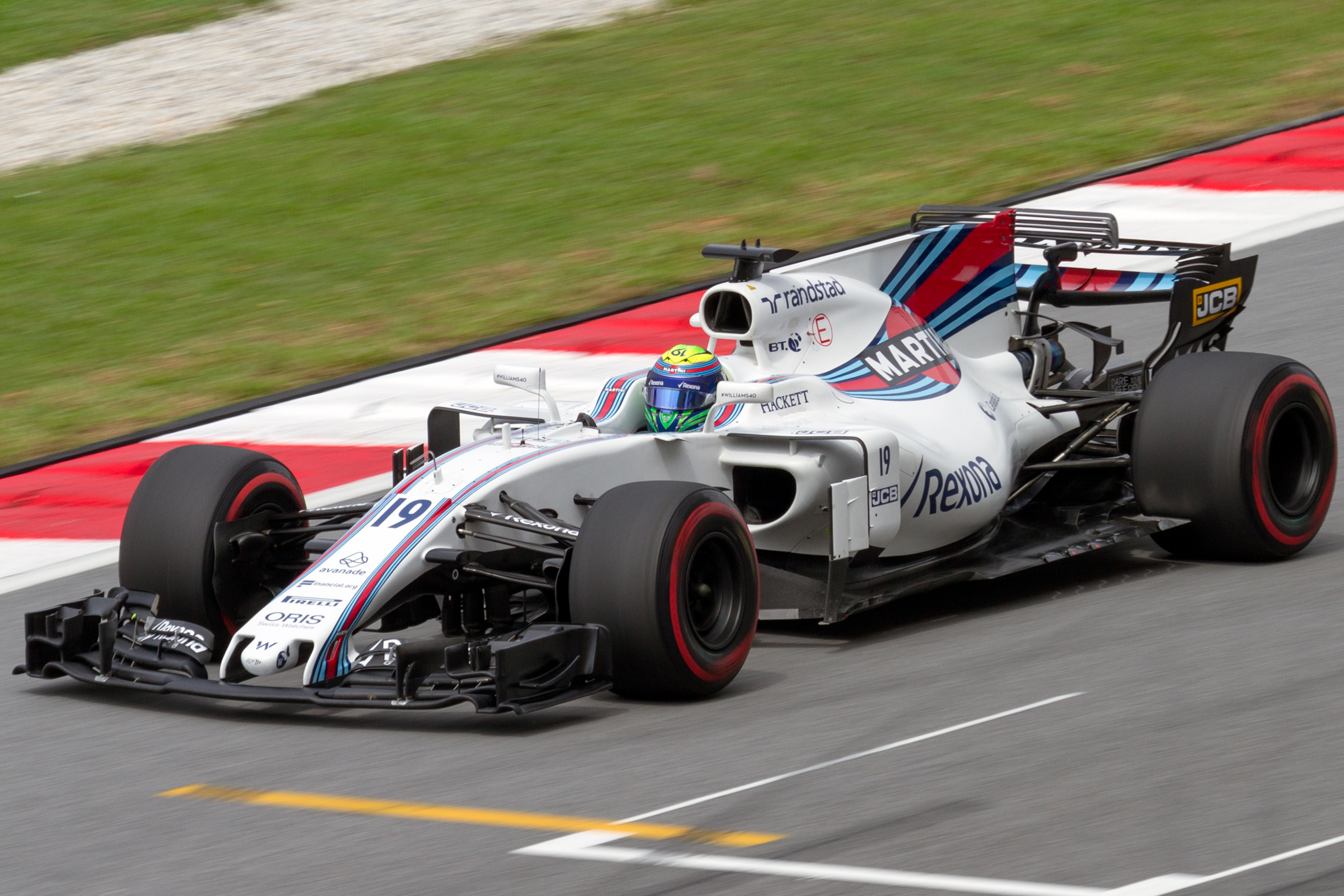 Formula One 2017 Rd.15 Malaysian GP: Felipe Massa (Williams)